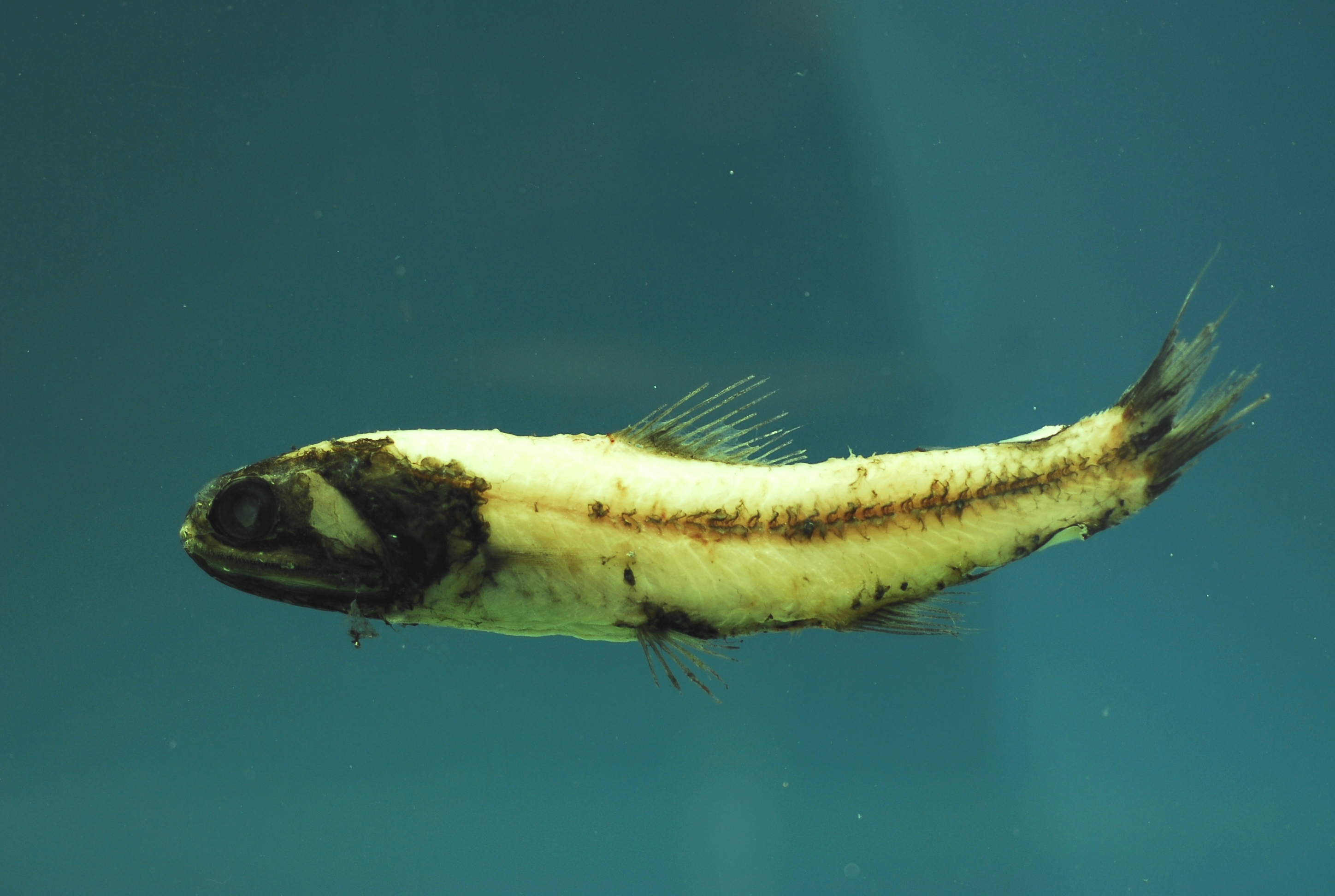 Lampadena luminosa from the Gulf of Mexico